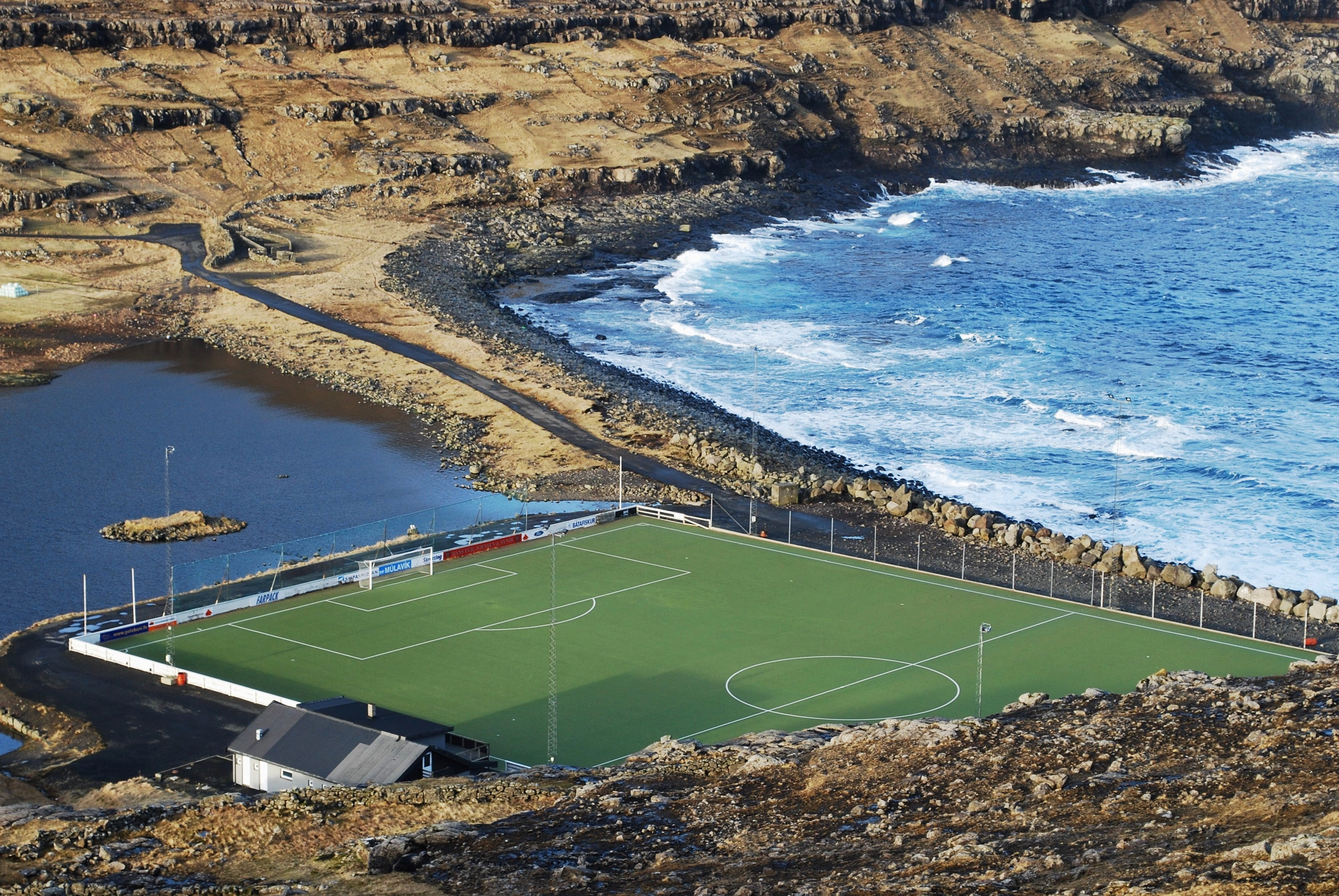 Campsite in Eiði, Eysturoy, Faroe Islands